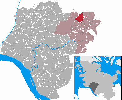 This map shows the area of the municipality Hennstedt in the Kreis (district) Steinburg, Schleswig-Holstein, Germany.